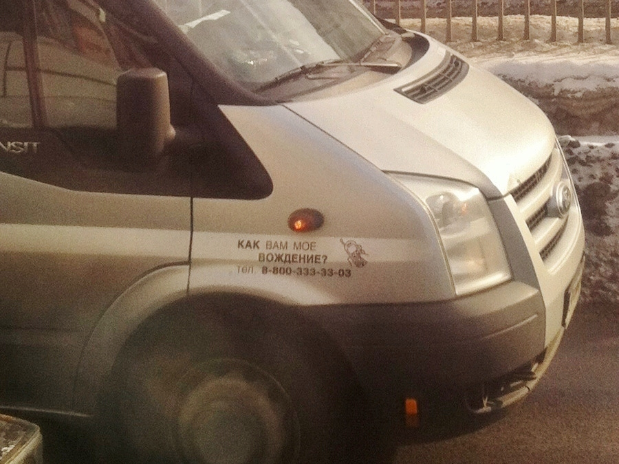 Russian How's my driving sticker.